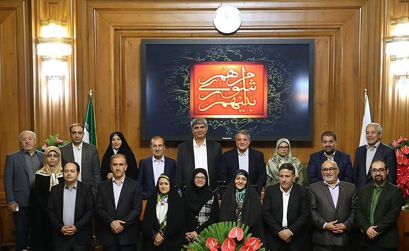 Members of Tehran City Council (2017-2021 period)